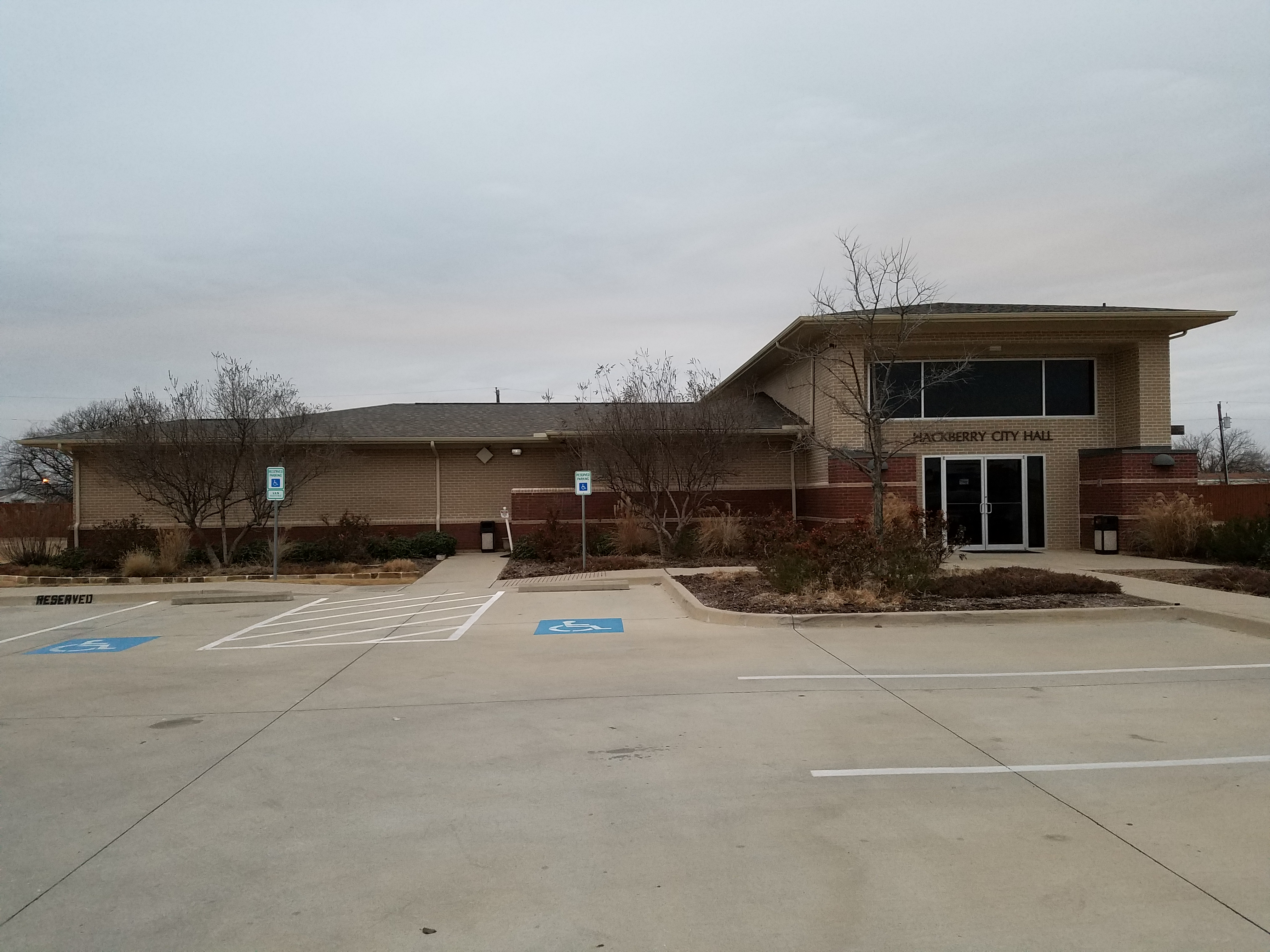 The City Hall of the Hackberry, Texas municipal government.